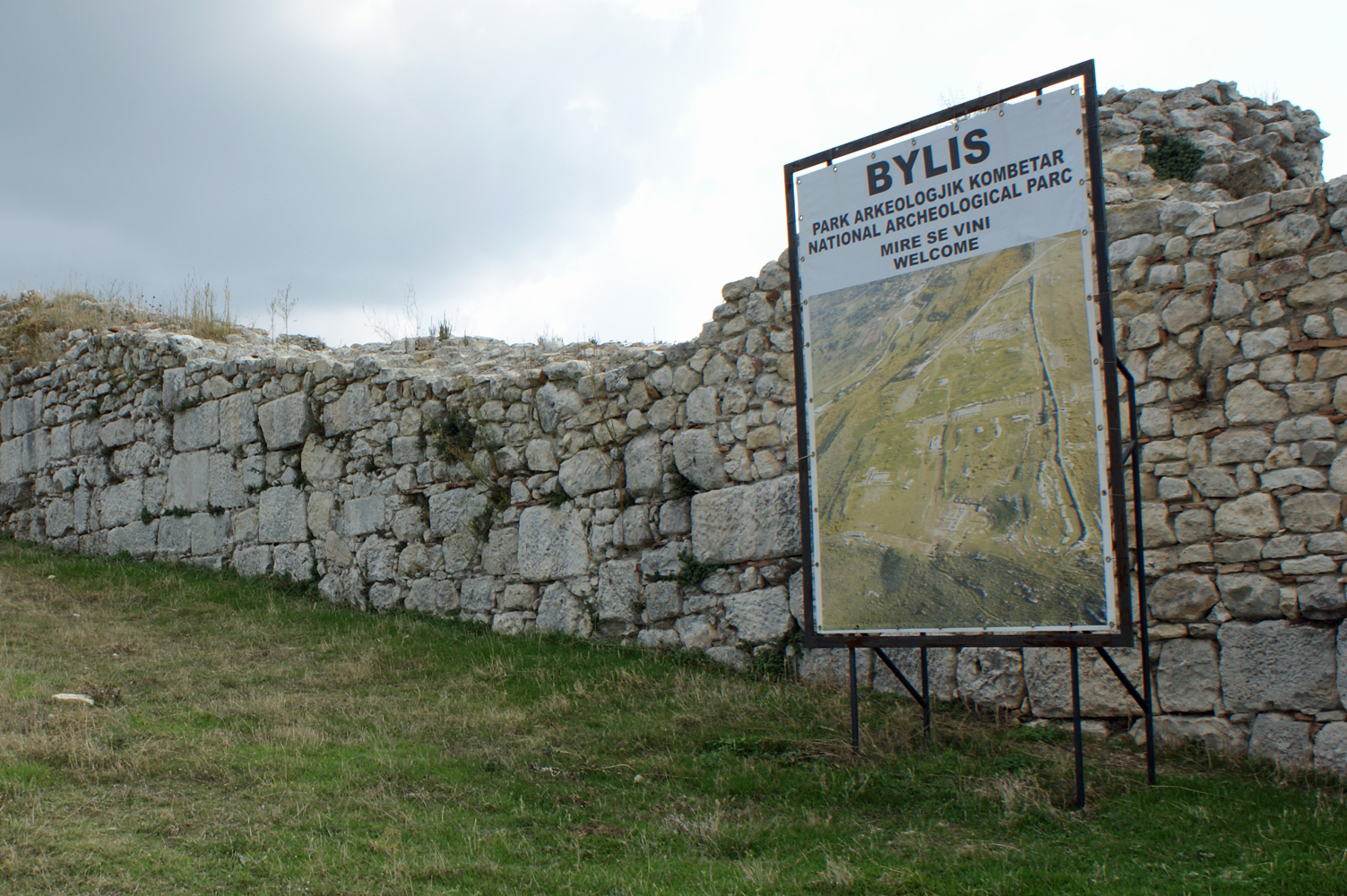 Byllis - Albania - City Wall